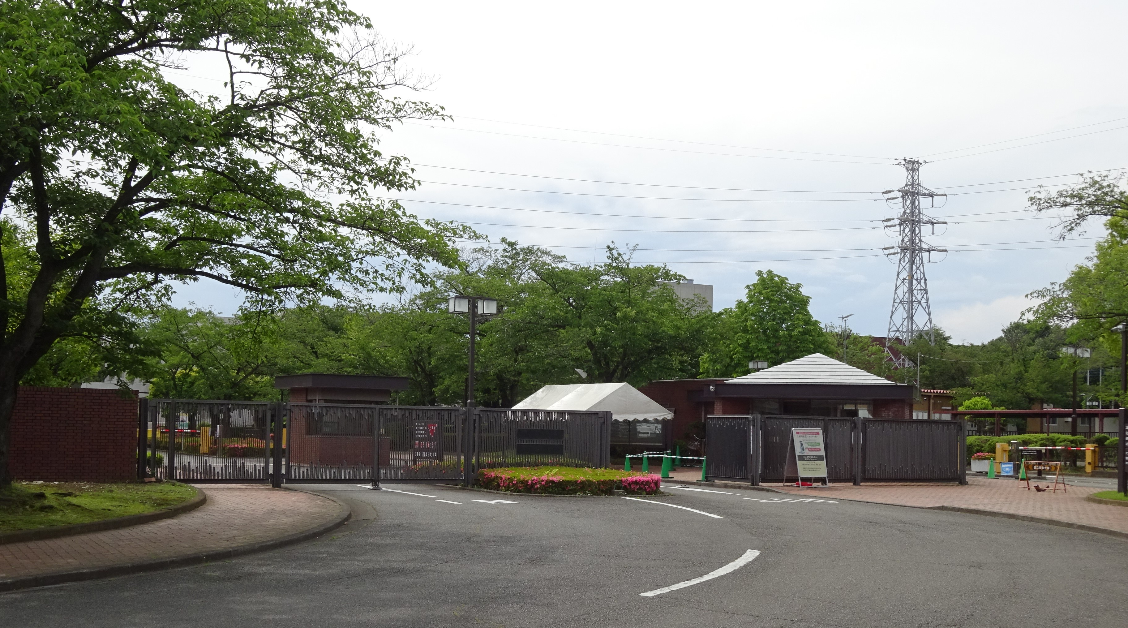 Kunitachi College of Music